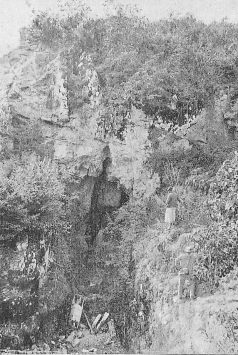 Entrance of Mánfai Cave in 1905.